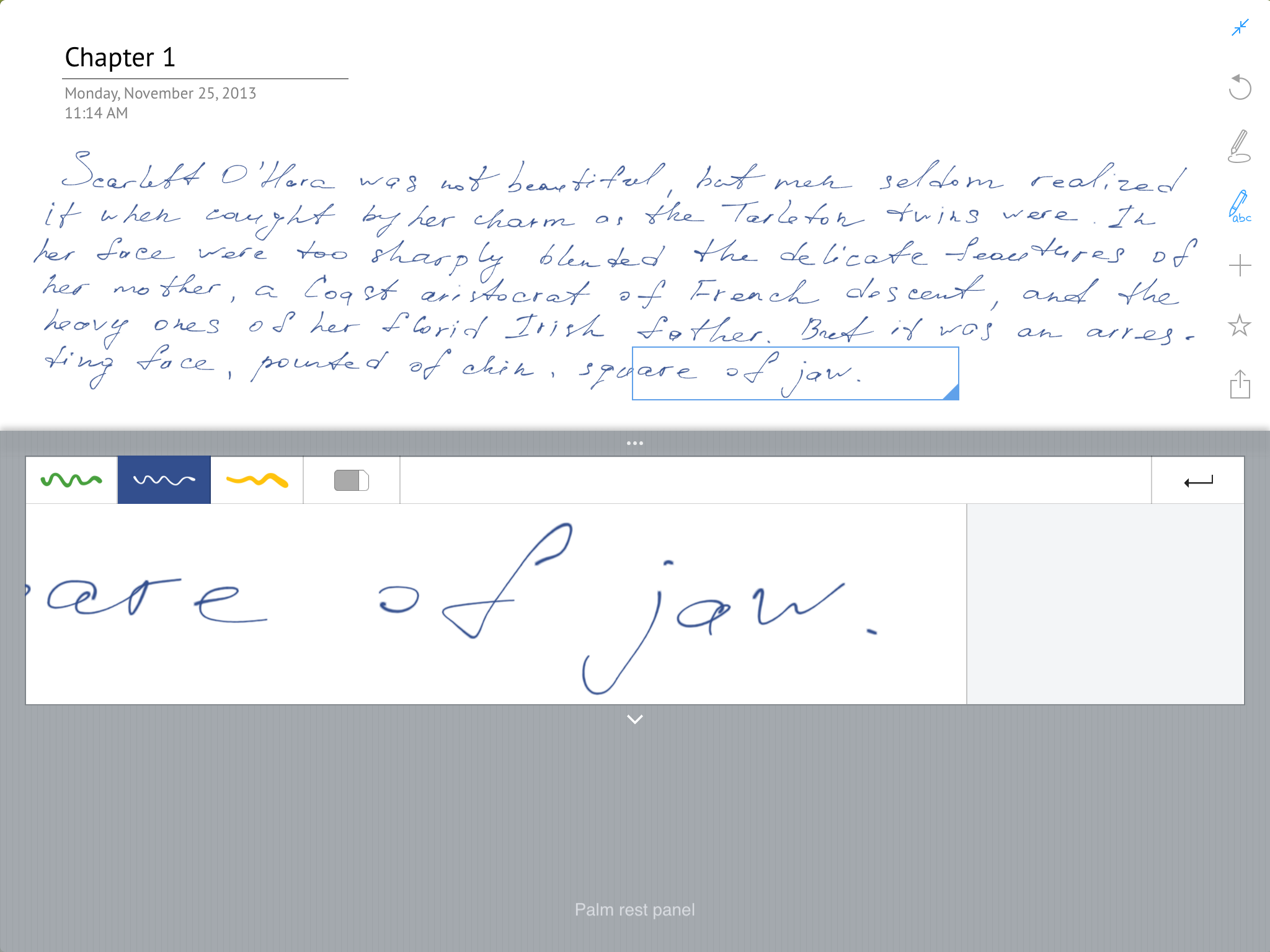 This screenshot shows Handwriting mode in Outline fro iPad